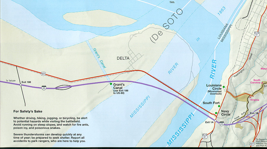 Grant's Canal, Madison Parish Louisiana